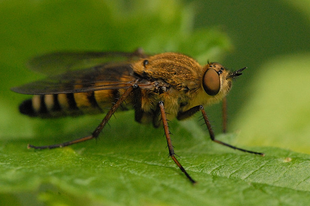 Thereva nobilitata from Commanster, Belgian High Ardennes .